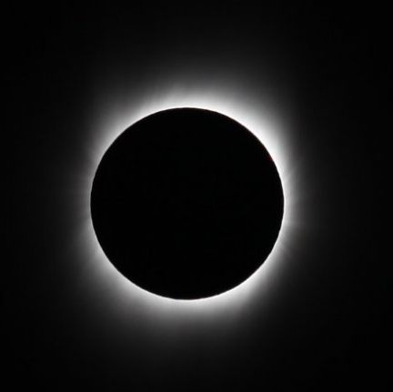 Total solar eclipse as seen from the district of Kurigram in Bangladesh. It was taken by Lutfar Rahman Nirjhar.